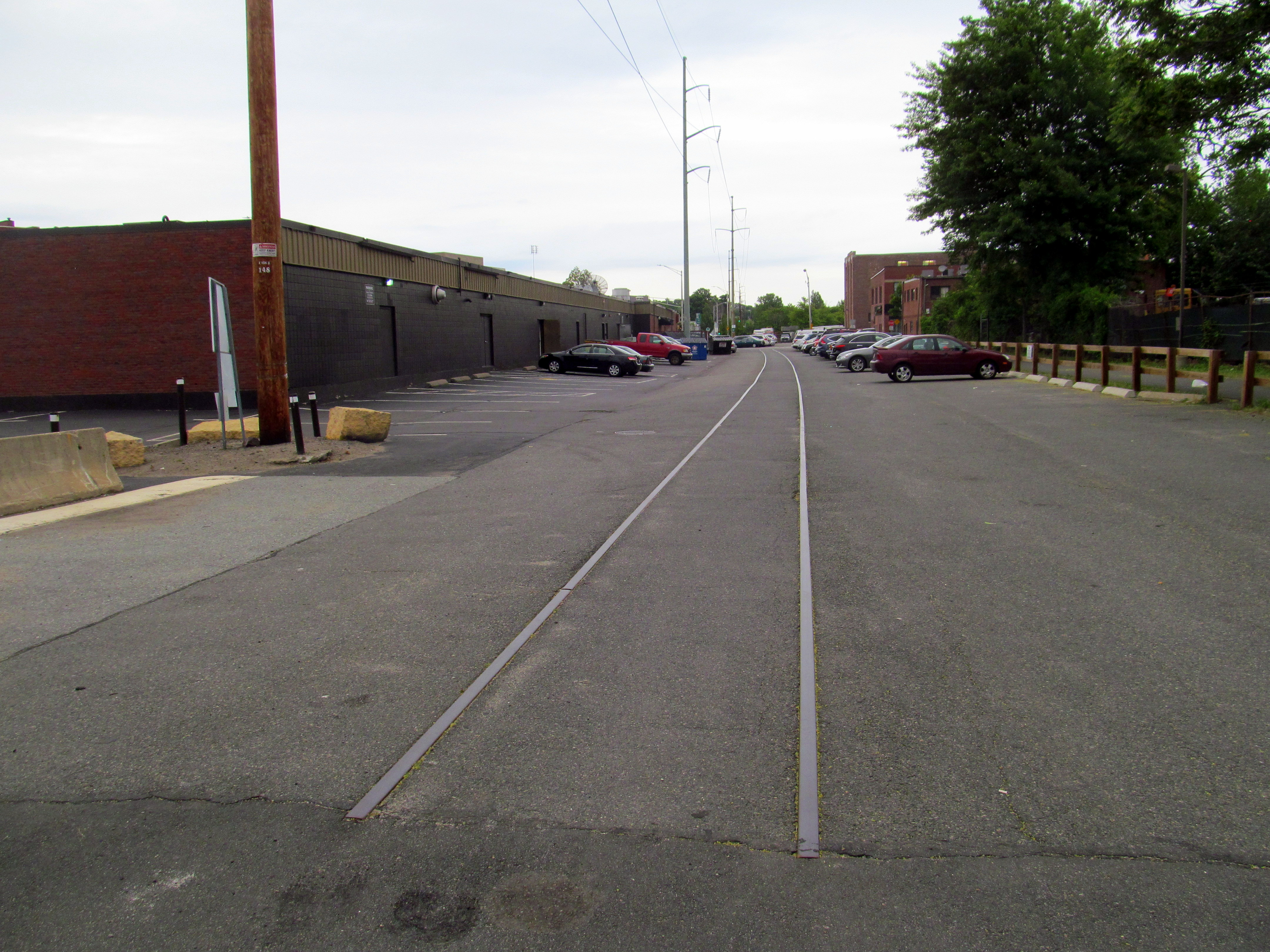 Rails of the Saugus Branch embedded in a parking lot in Malden, Massachusetts